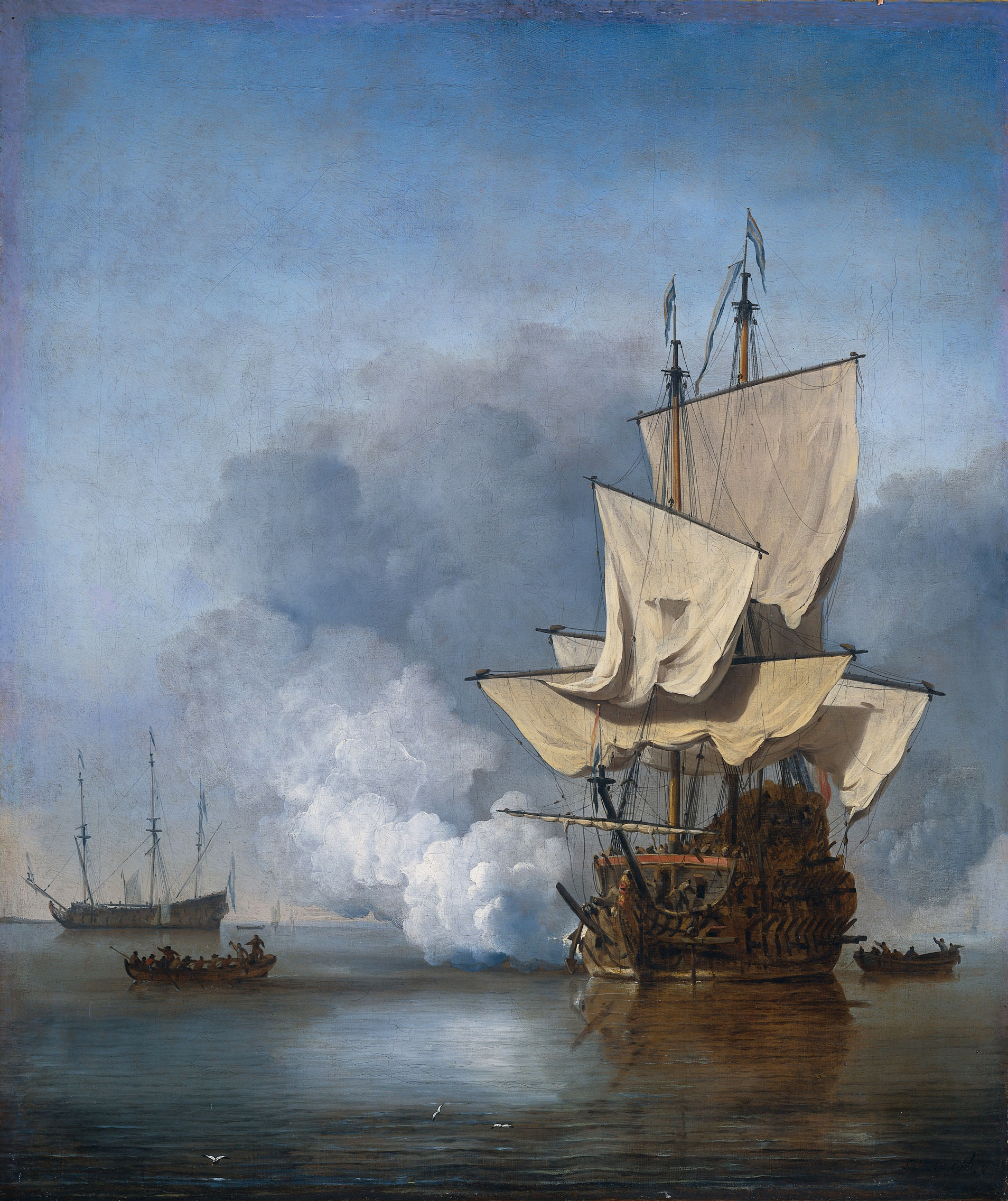 The cannon shot. A man-of-war in a calm with slack sails fires a cannon shot. Sloops on either side. In the distance a second man-of-war with lowered sails. Pendant of File:Een schip in volle zee bij vliegende storm, bekend als ‘De windstoot’ Rijksmuseum SK-A-1848.jpeg.